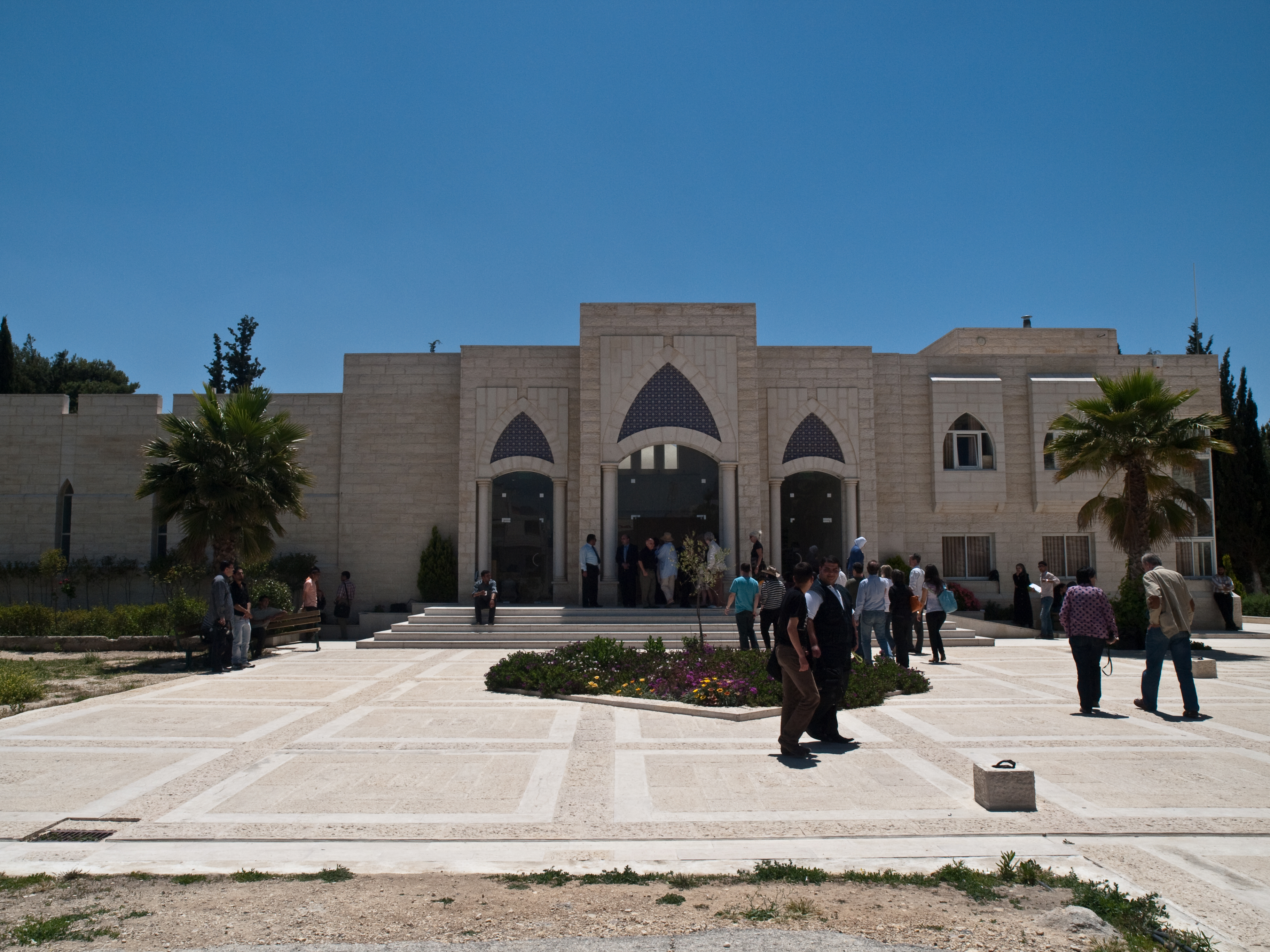 Hebron University